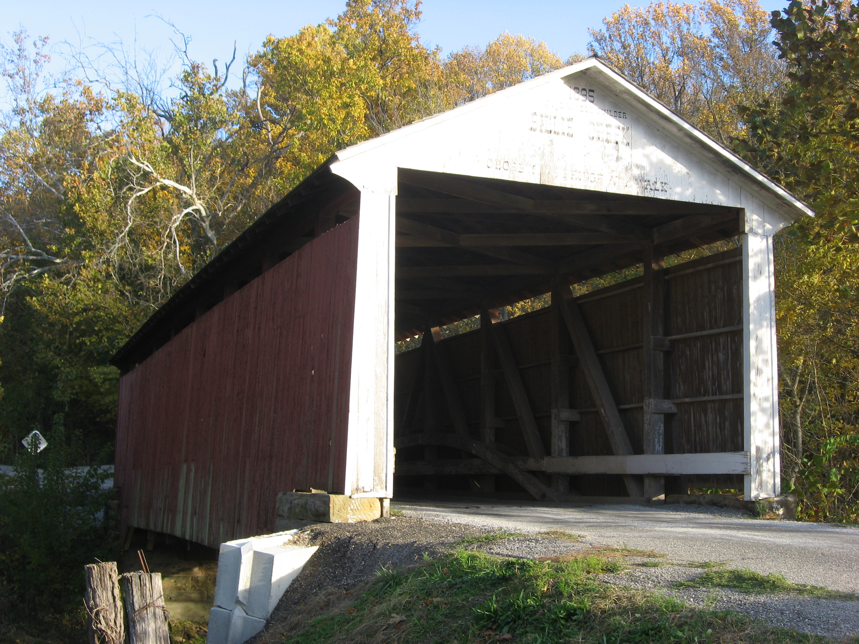 Western portal and northern side of the Billie Creek Covered Bridge, which carries Old U.S. Route 36 over Billie Creek on the grounds of the former Billie Creek Village in Adams Township, Parke County, Indiana, United States. Built in 1895, it is listed on the National Register of Historic Places.